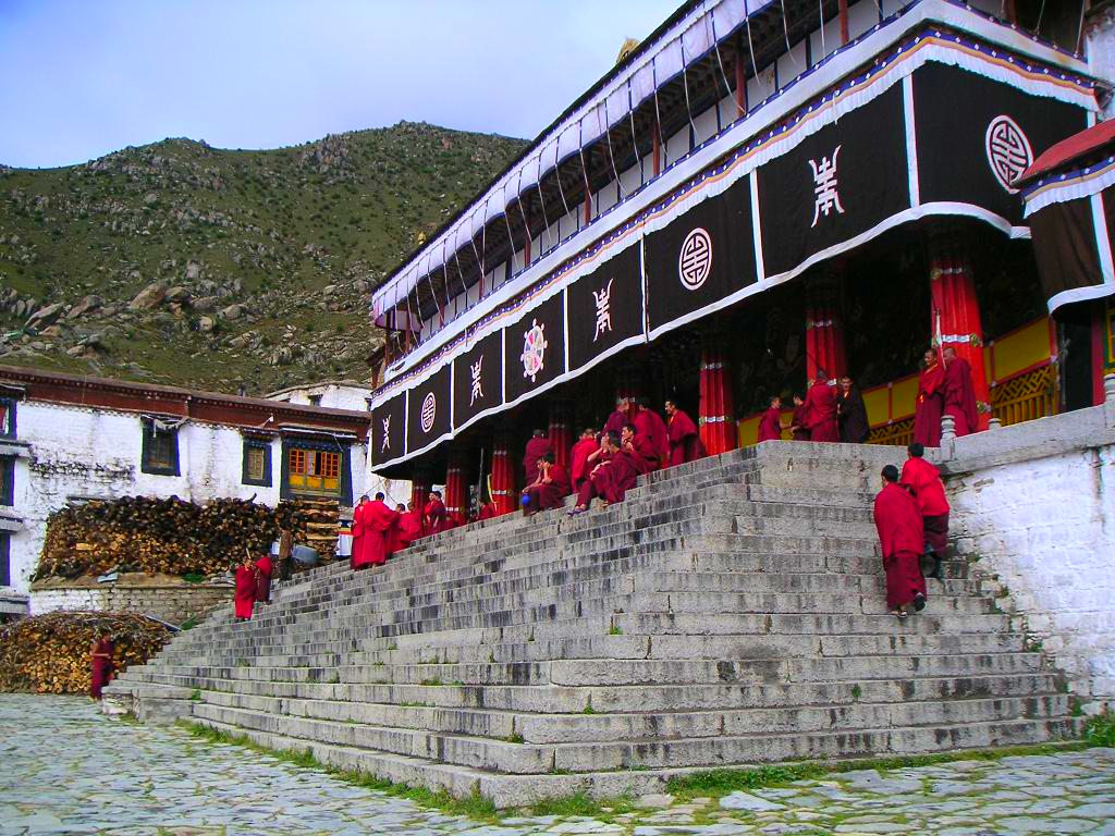 Monks at the entrance to the Prayer Hall of Drepung Monastery.